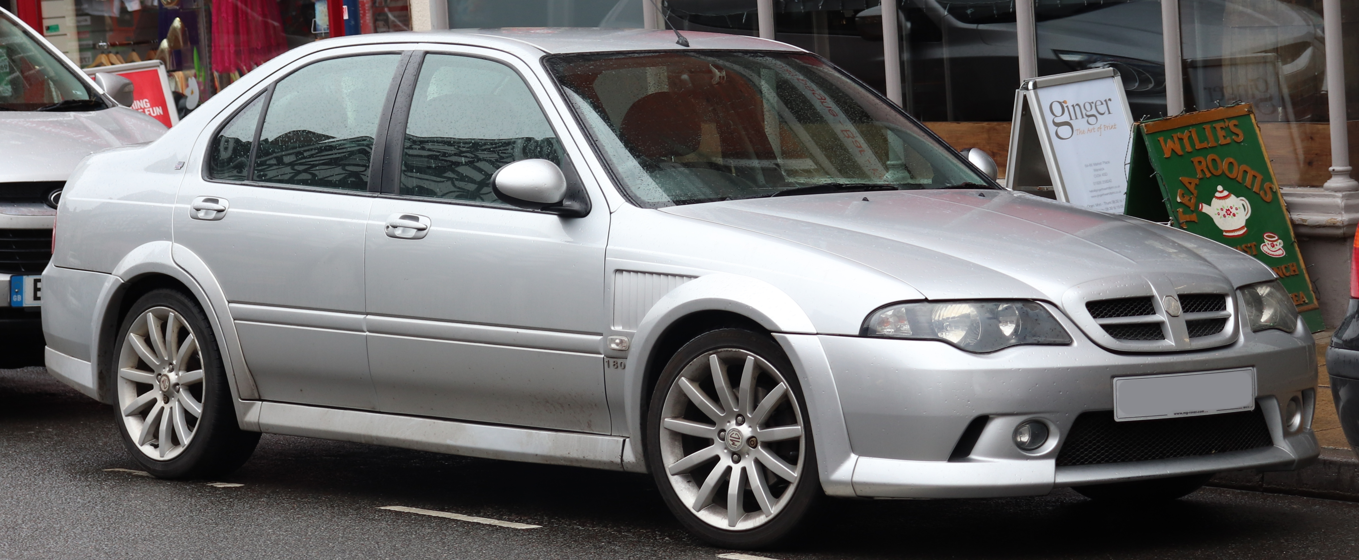 2004 MG ZS 2.5 Front Taken in Warwick